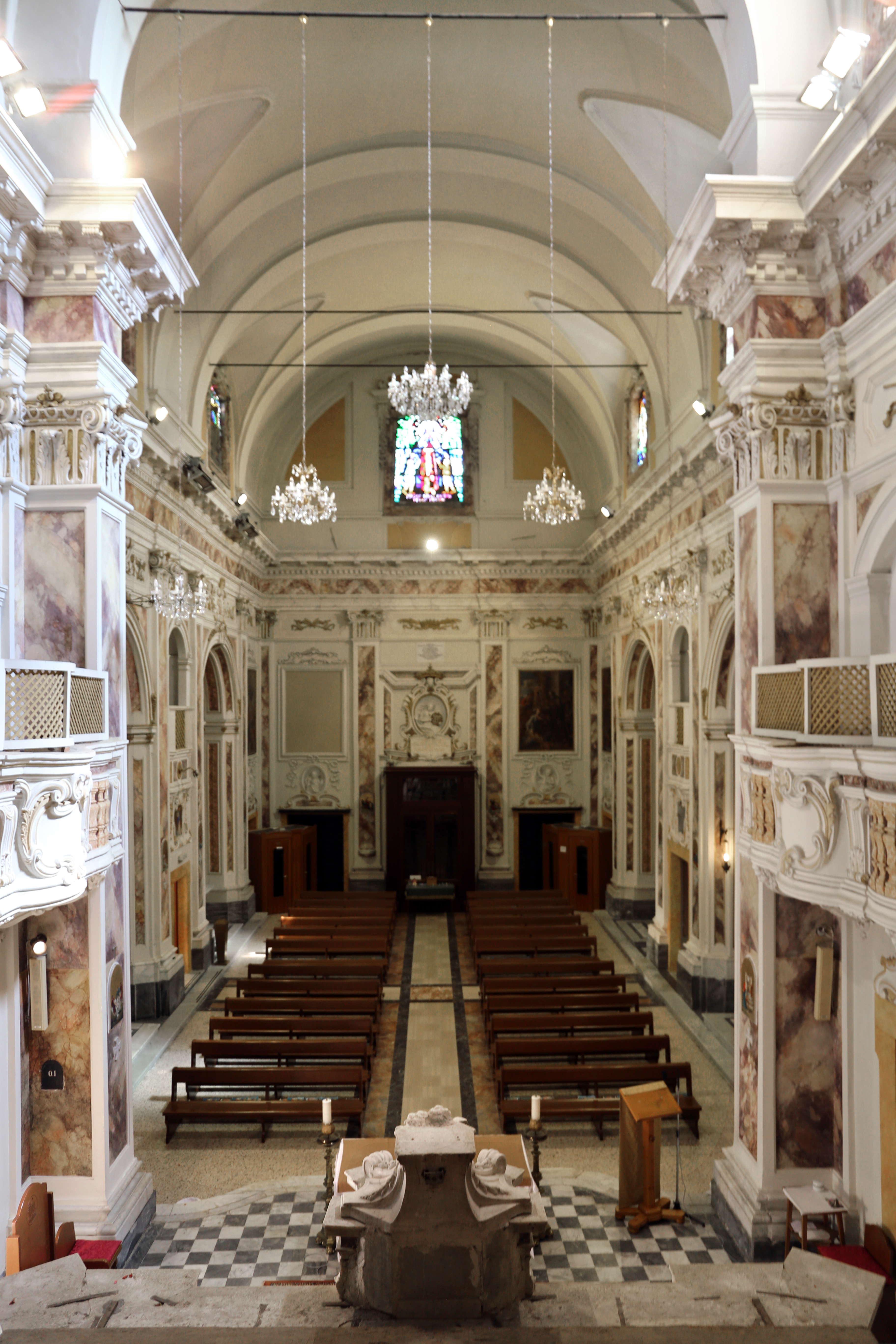 Casa di Nazareth